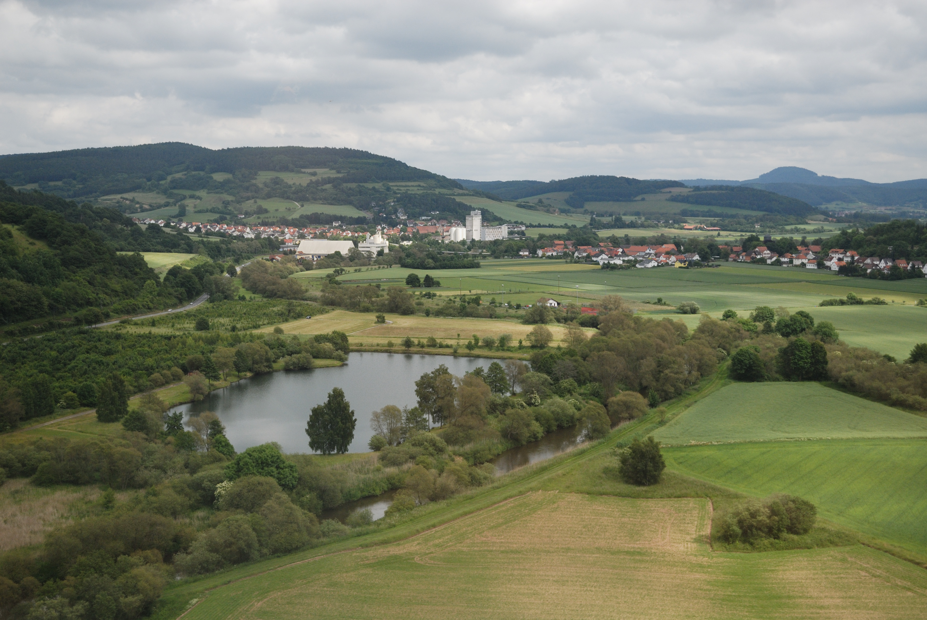 View of Morschen from an ICE train.